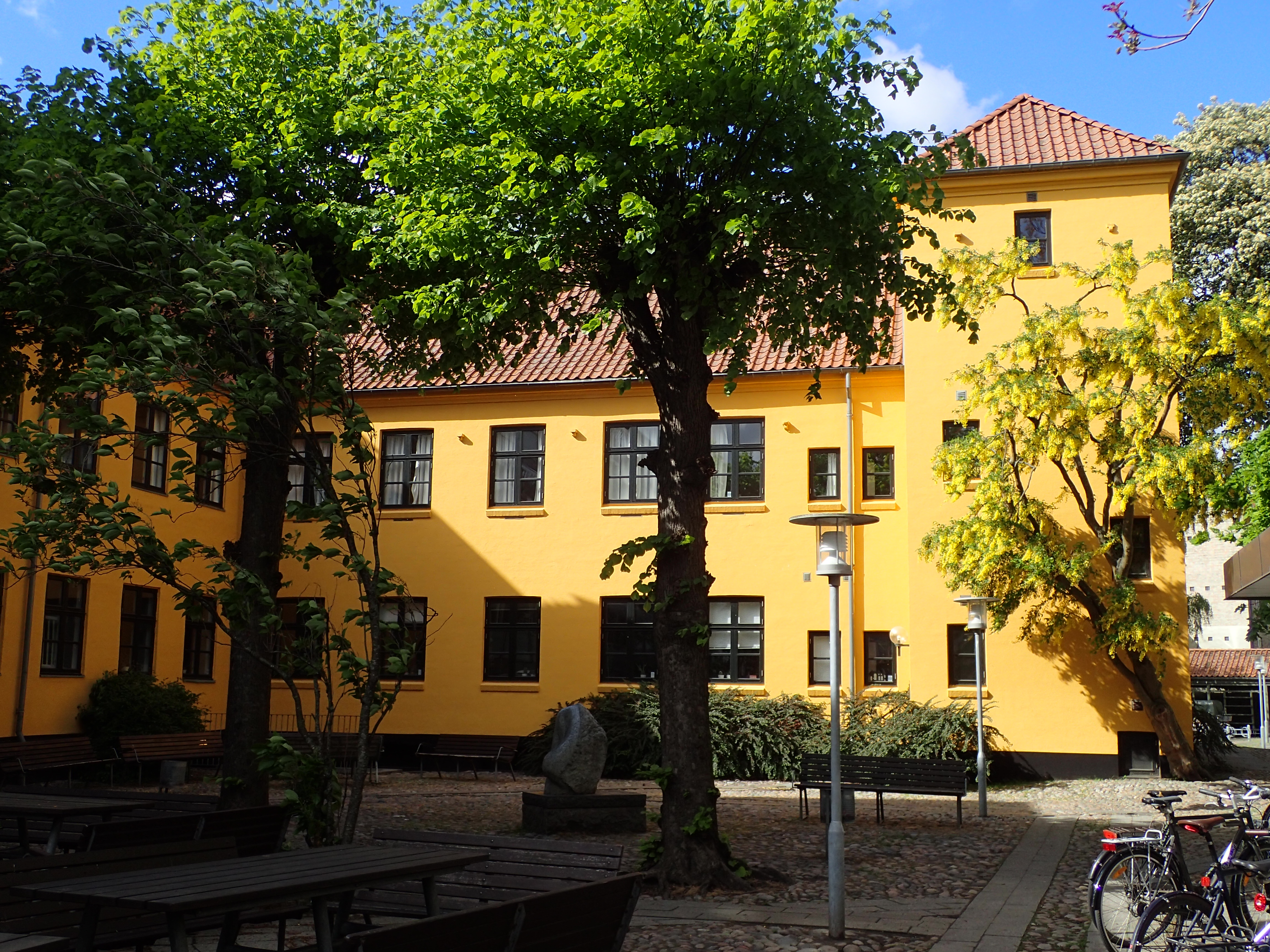 Den Gule Bygning, Aarhus Katedralskole